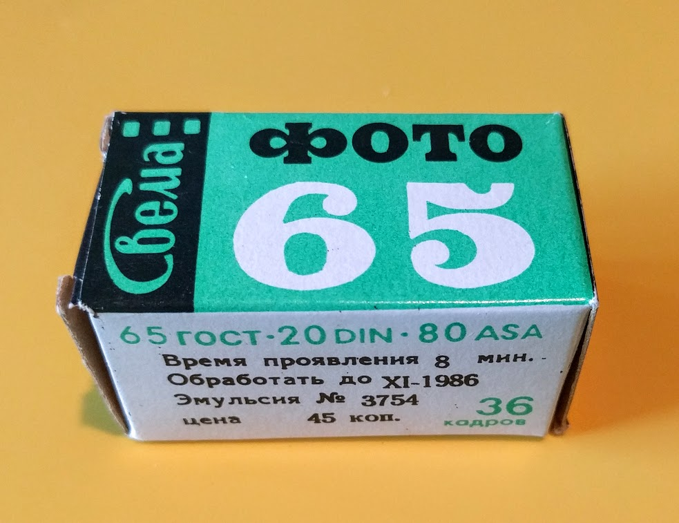 A photograph of the product packaging of a roll of Svema film